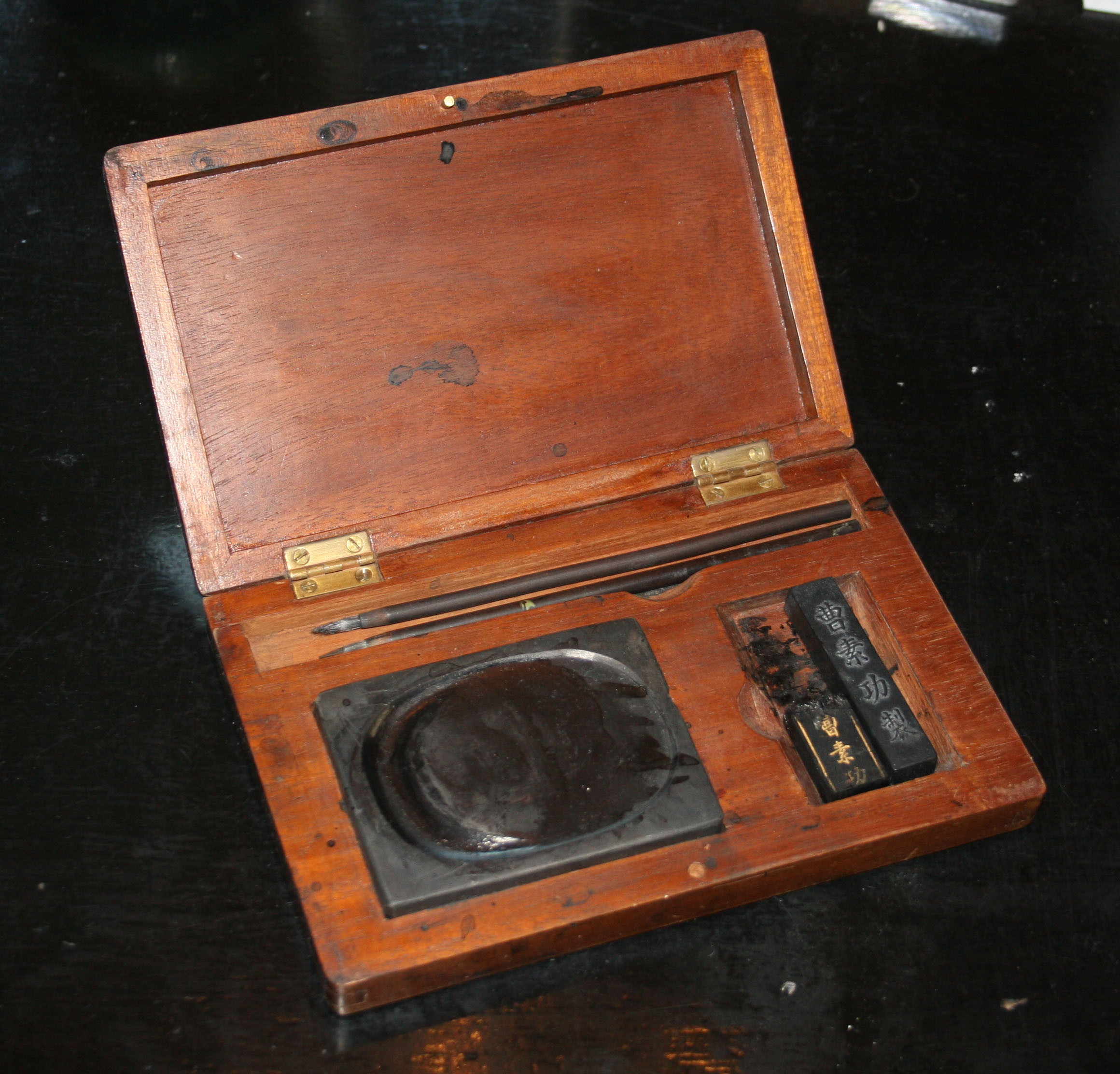 Tusch writing/drawing set